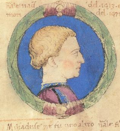 Meliaduse d'Este